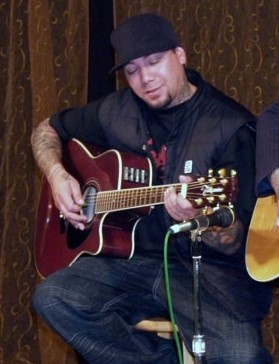 Wuv Bernardo of POD